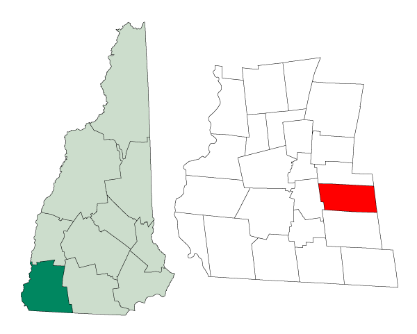 Map of a municipality in Cheshire County, New Hampshire